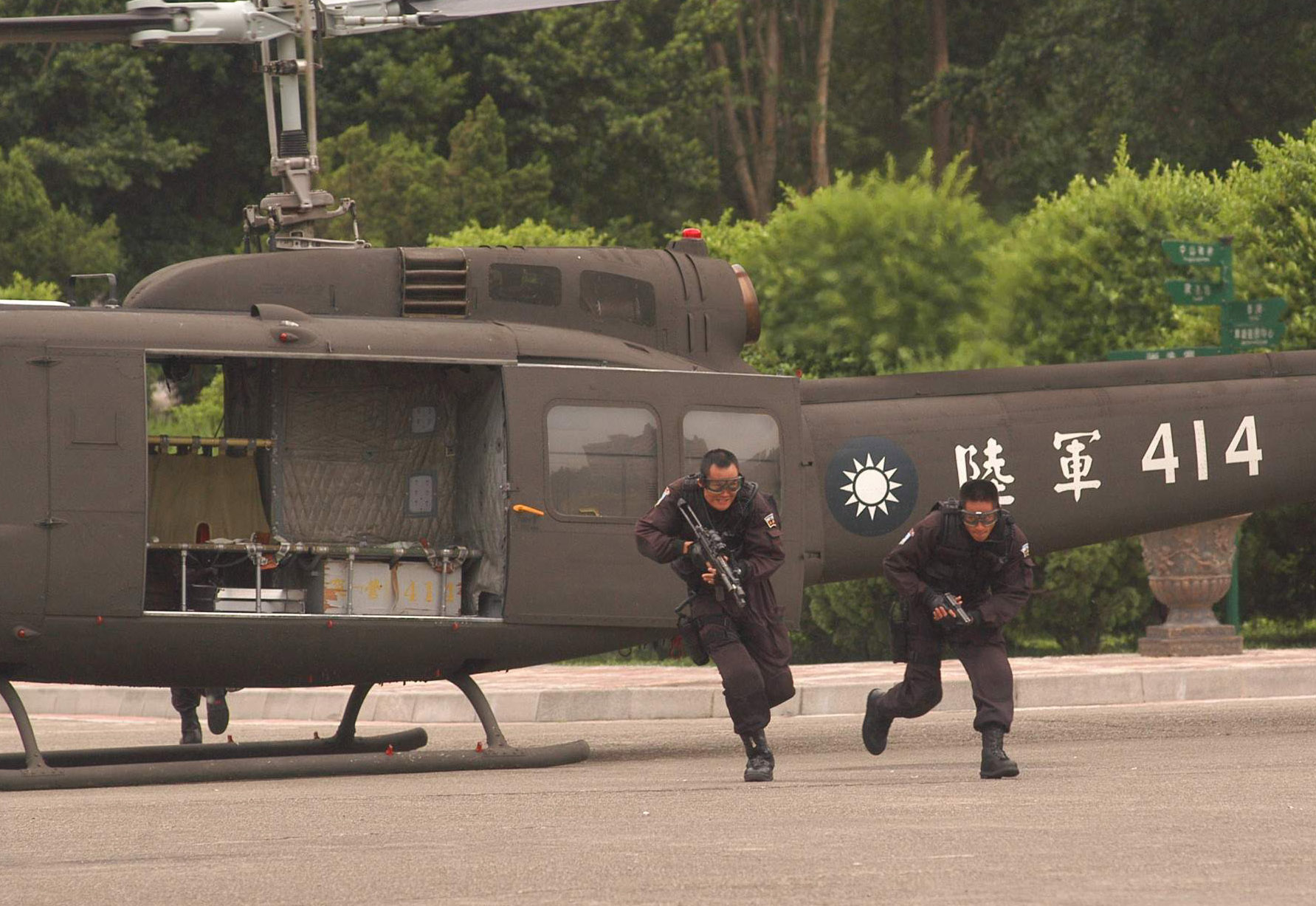 ROC Military Police special forces disembarking from a UH-1H helicopter from the ROC Army 602nd Air Cavalry Brigade during a counter-terrorism exercise. Taipei City, August 22, 2005. Photograph from ROC Ministry of National Defense MND copyright info: "Information presented on this site is considered public information and may be distributed or copied unless otherwise specified. Use of appropriate byline/photo/image credits is requested."[1]